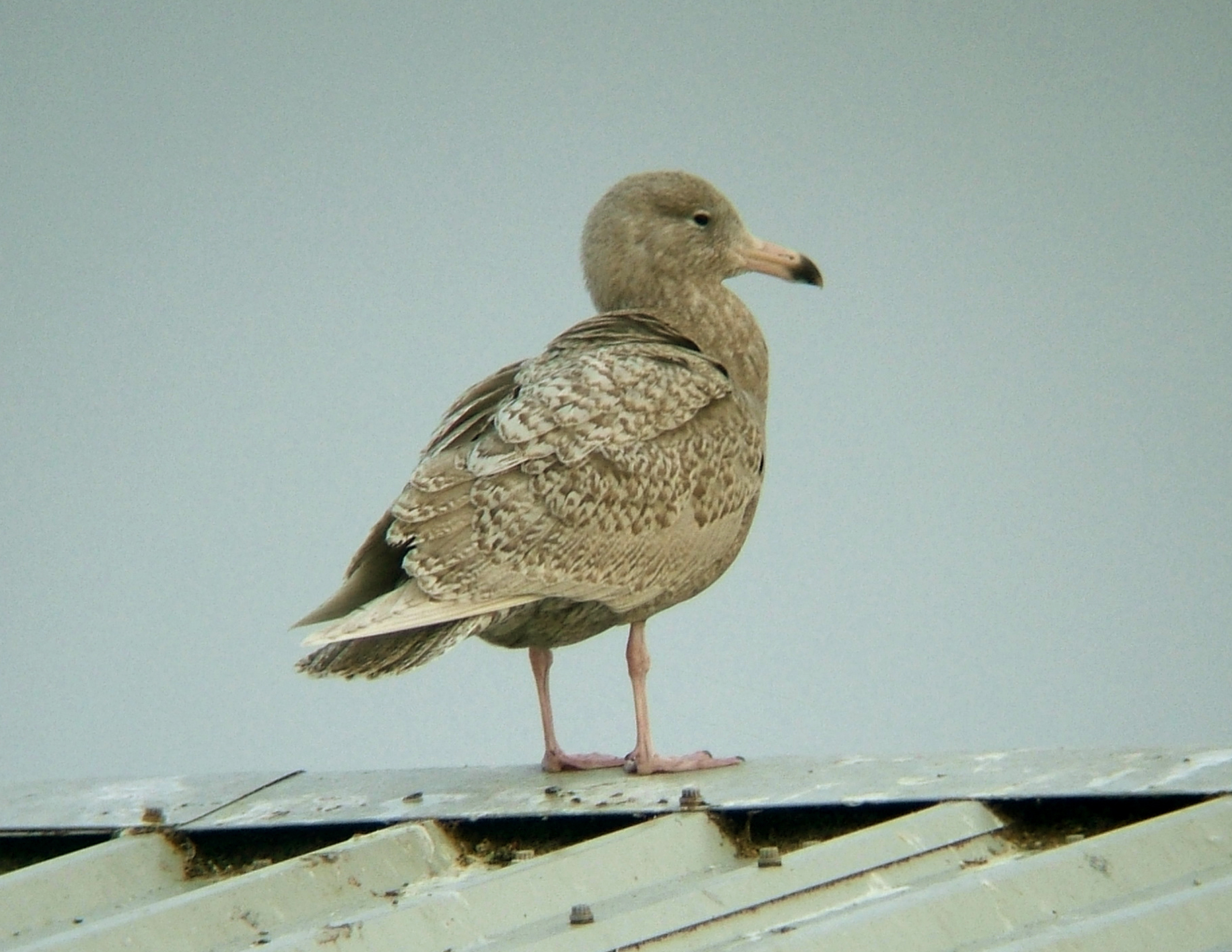 Glaucous Gull Larus hyperboreus in first-winter plumage, North Shields Fish Quay, Northumberland, UK